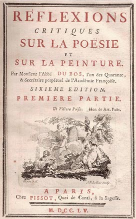 Title page of "Réflexions critiques sur la poésie et la peinture" ("Critical Reflections on Poetry and Literature") by French diplomat and historian Jean-Baptiste Dubos (a.k.a. L'abbé Dubos).